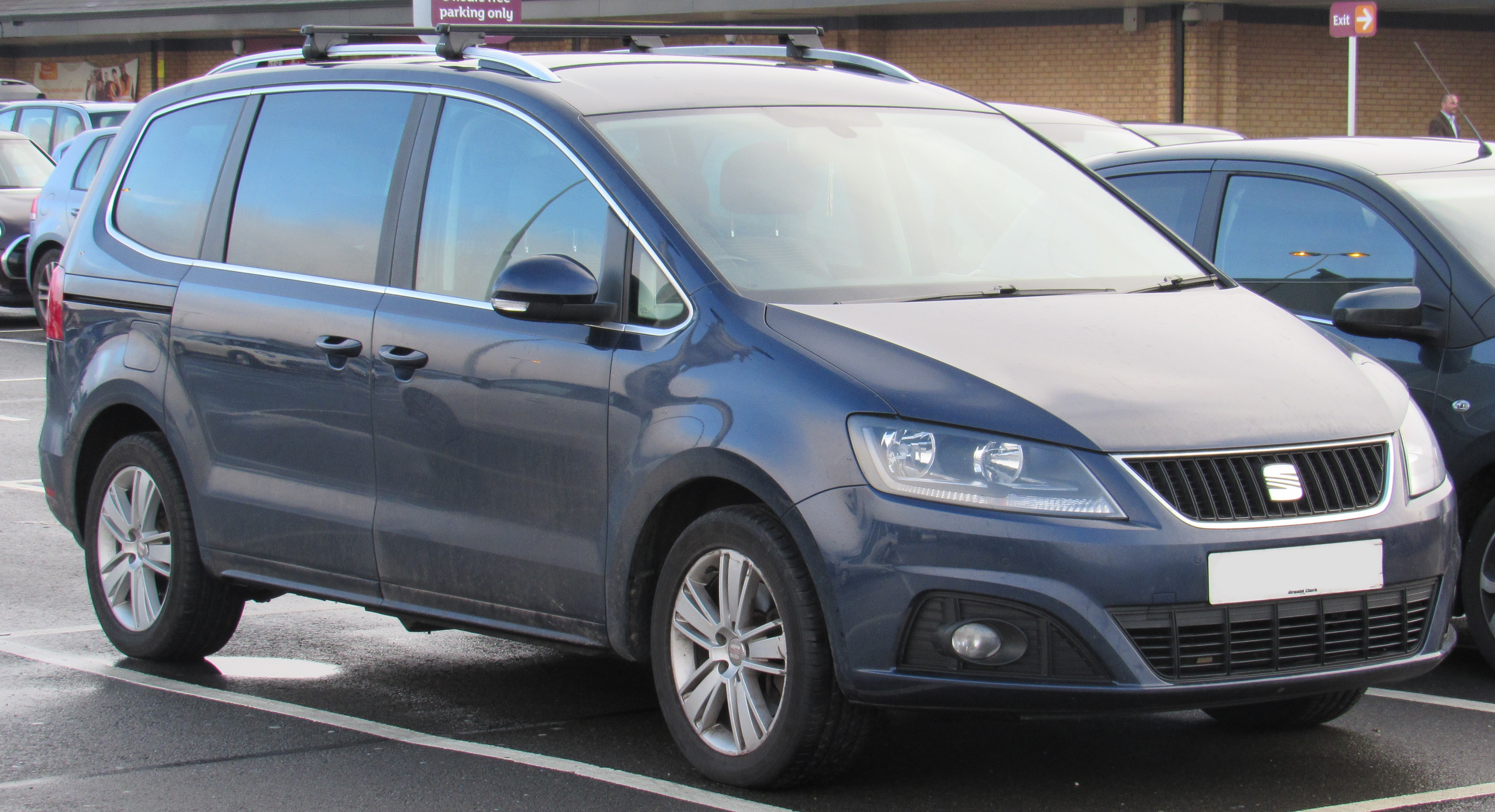 2012 SEAT Alhambra SE Ecomotive CR 2.0 Front Taken in Leamington Spa